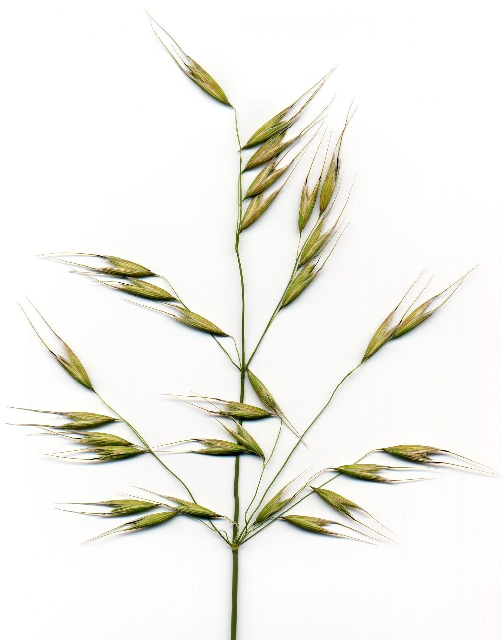 Common Wild Oat, Avena fatua. (Don't mix it up with Common Oat!)